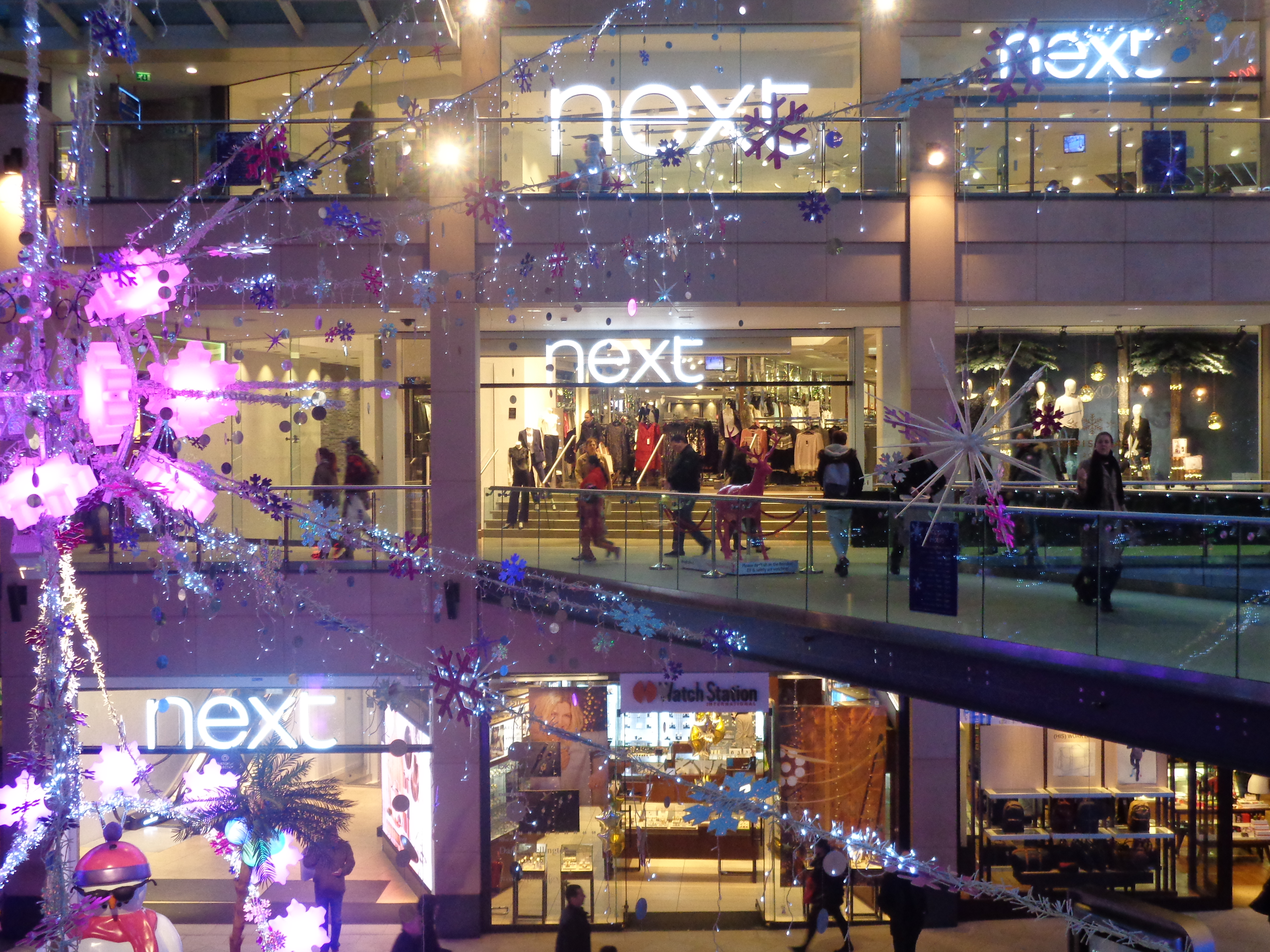 Christmas decorations at Trinity Leeds in Leeds, West Yorkshire. Taken on the evening of Monday the 21st of December 2015.